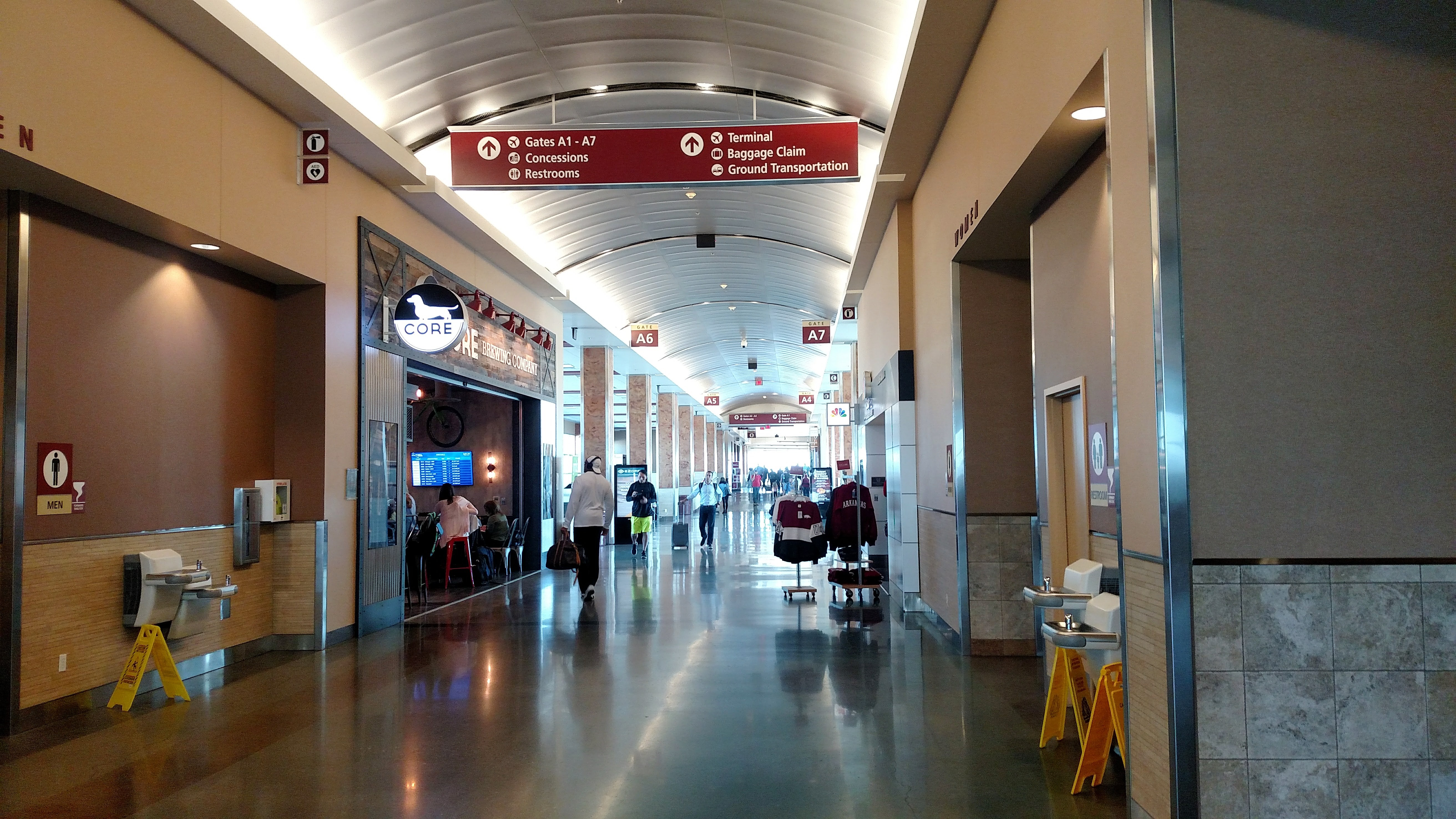 Looking up the terminal in XNA airport